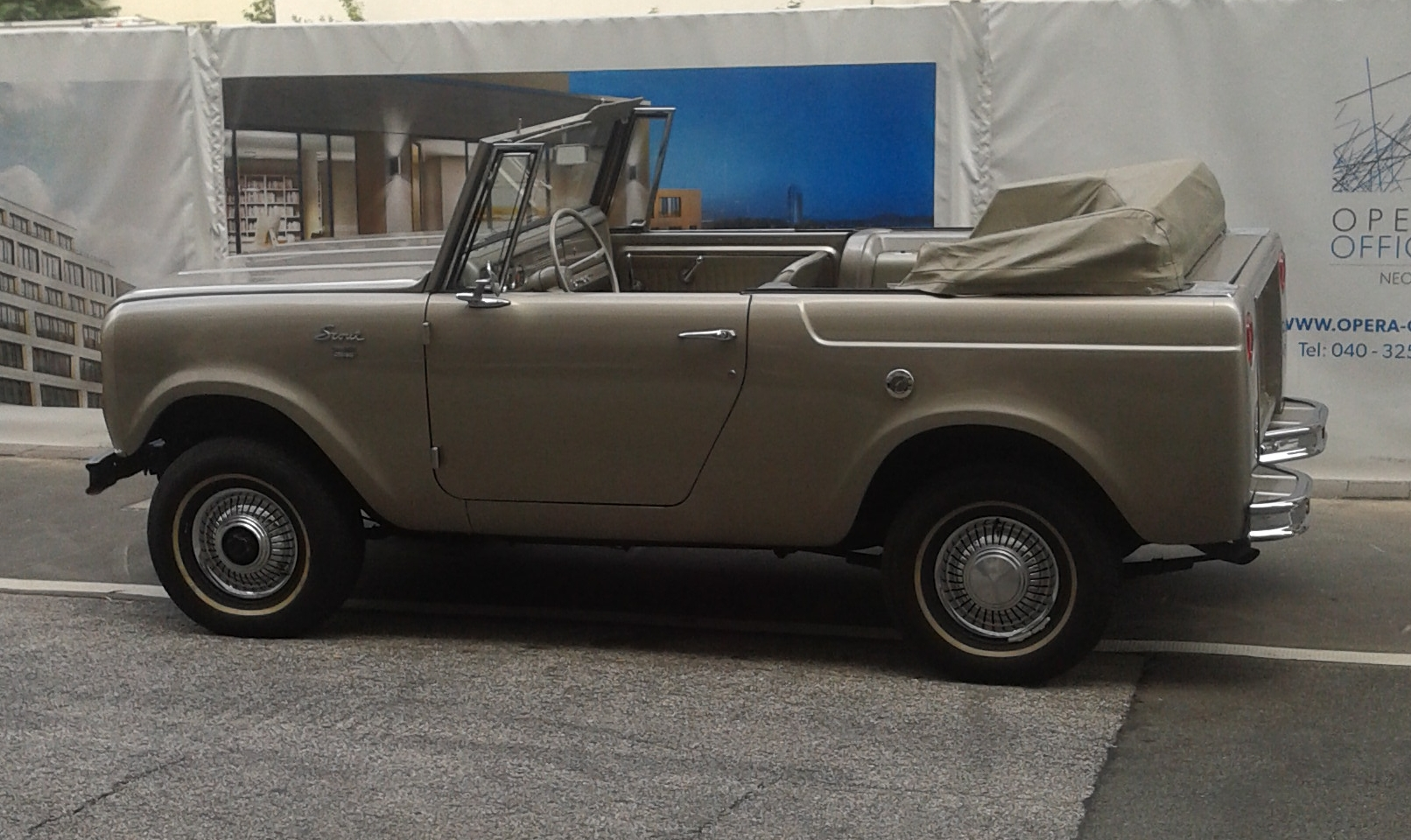 International Harvester Scout